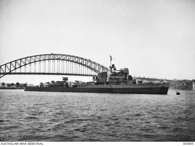 SYDNEY, NSW. C.1943. STARBOARD SIDE VIEW OF THE DUTCH FLOTILLA CRUISER TROMP. THE SPLINTER TYPE CAMOUFLAGE SCHEME WORN EARLIER IN THE WAR HAS BEEN REPLACED BY THE AMERICAN MEASURE 22 SCHEME, THE COLOURS PROBABLY CONSISTING OF NAVY BLUE BELOW HAZE GREY. NOTE THE SEARCHLIGHT POSITION ON THE FOREMAST ABOVE WHICH AN AMERICAN SC RADAR HAS REPLACED THAT CARRIED EARLIER. TYPE 271 SURFACE SEARCH RADAR IS MOUNTED BEFORE THE MAST. AMIDSHIPS, ABOVE HER TORPEDO TUBES, TWIN AA MACHINE GUNS AND A SMALL RANGEFINDER HAVE BEEN MOUNTED IN THE SPACE ONCE OCCUPIED BY HER FLOATPLANE. THE SAMPSON POSTS ONCE FITTED AT THE BREAK OF THE FORECASTLE HAVE BEEN REPLACED BY 4 INCH AA GUNS. NOTE THE PROMINENT RANGEFINDER ABOVE THE BRIDGE. ON THE DECKHOUSE AFT ARE TWIN BOFORS 40 MM AA GUNS ON TRIAXIALLY STABILISED HAZEMEYER MOUNTINGS WHICH WERE VERY ADVANCED FOR THE PERIOD. SINGLE 20 MM OERLIKON AA GUNS ARE SITED ON THE CROWNS OF B AND Y TURRETS AND ABAFT THE BRIDGE. (NAVAL HISTORICAL COLLECTION).